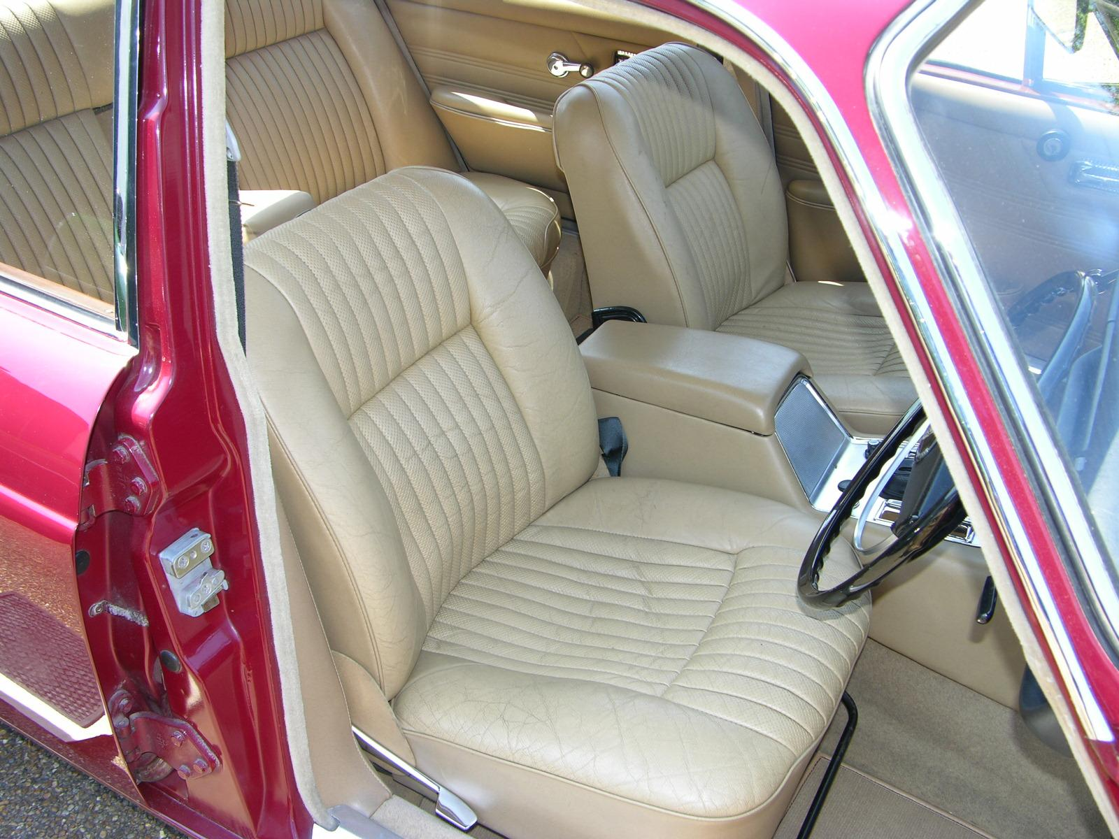 1970 Jaguar XJ6 4.2 Series 1